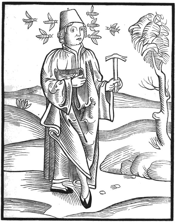 A forerunner of the Protestant Reformation, born at Zurich, in 1388 or 1389; died about 1458.